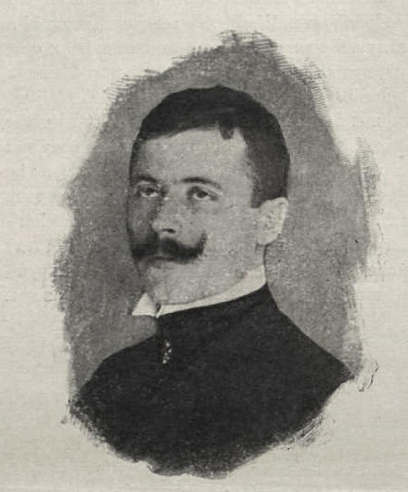 László Hegedűs (painter)